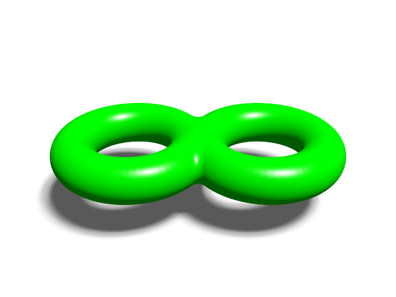 Two merged tori